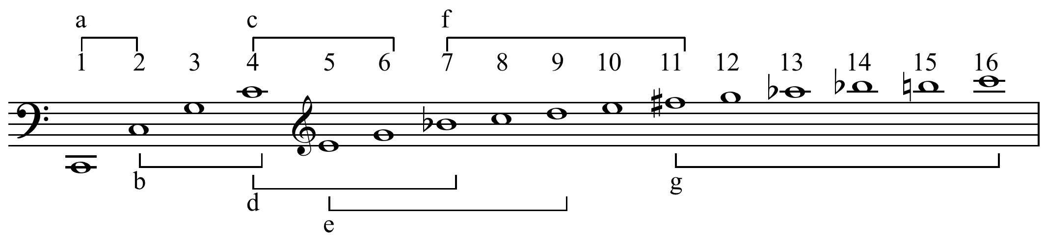 Cooper (1973, p.6-7) proposes the following timeline: A) unison and octave singing (magadizing) in Greek music and Ambrosian and Greek chant, B) parallel fourths and fifths in organum, "from c. 850" C) "triadic music; from c. 1400" D) chordal seventh, from c. 1600 E) chordal ninth, from c. 1750 F) whole-tone scale, from c. 1880" G) total chromaticism, twelve-tone technique, and microtones in the early 20th-century.